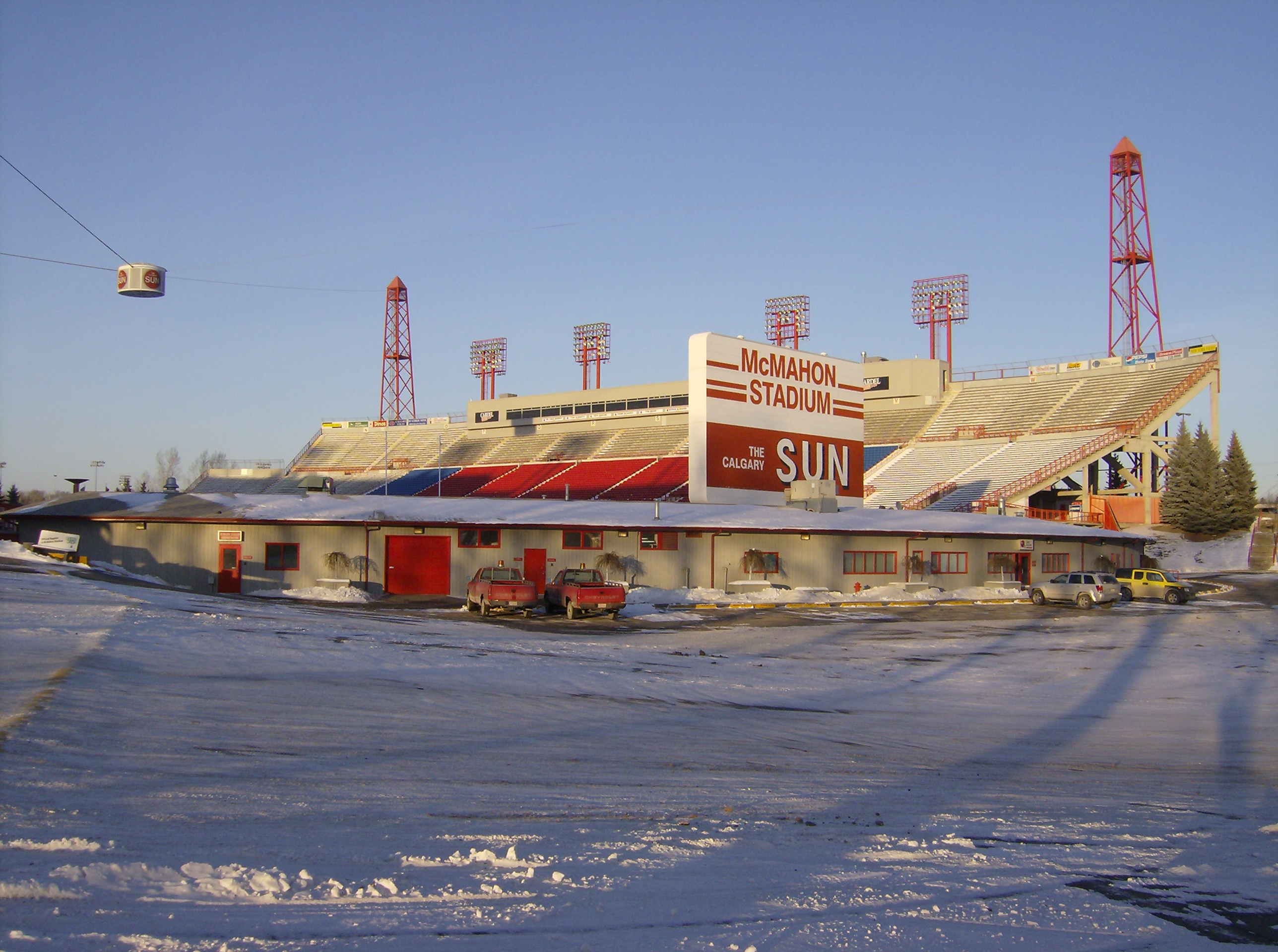 McMahon Stadium is a football stadium in Calgary, Alberta, Canada